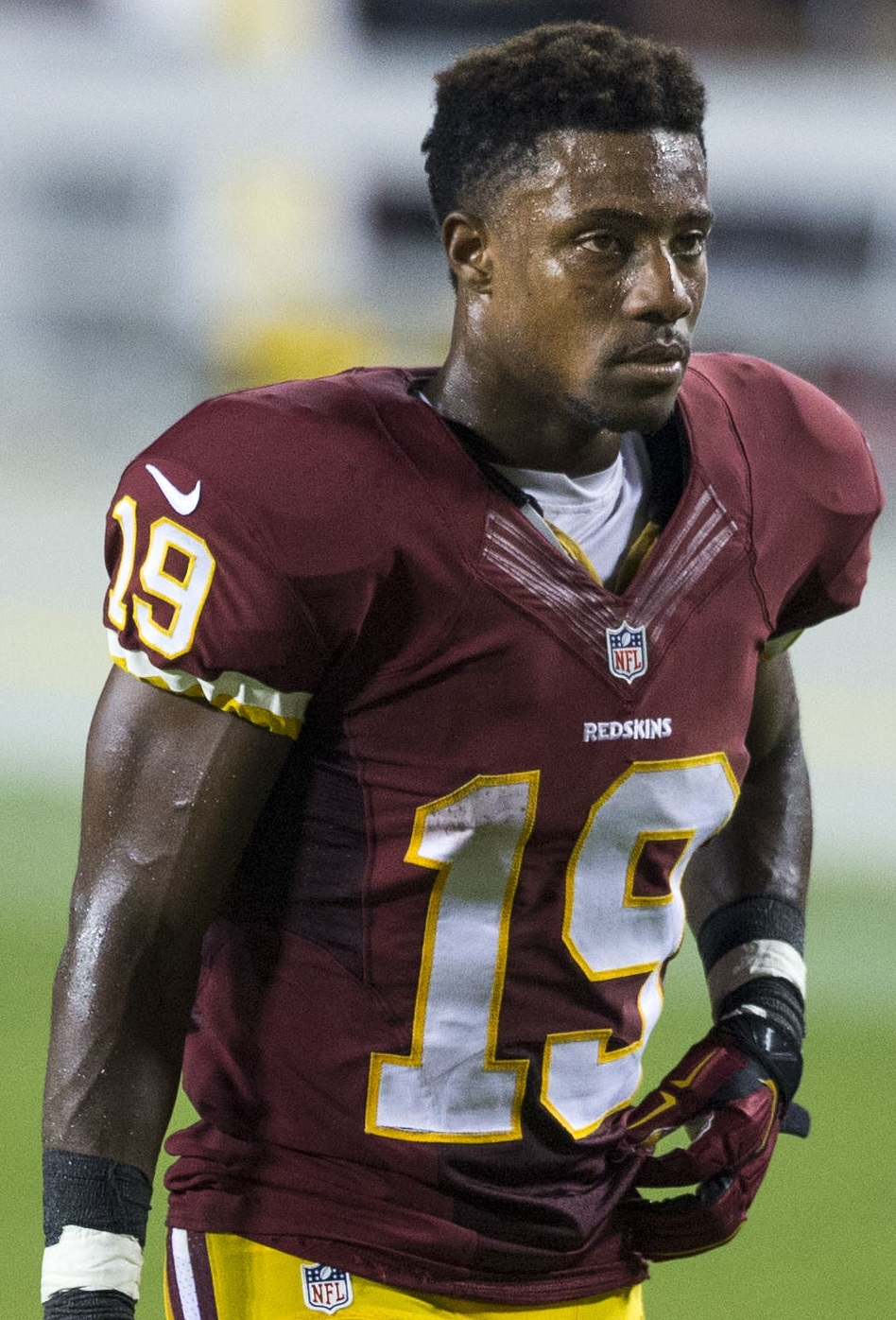 Jaguars at Redskins 9/3/15